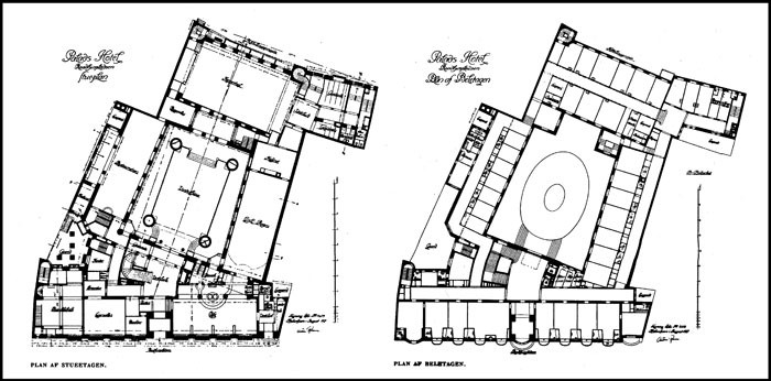 The floor plan of Anton Rosen's Palace Hotel in Copenhagen, Denmark